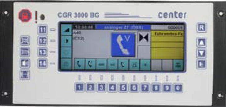 modern MMI with color display